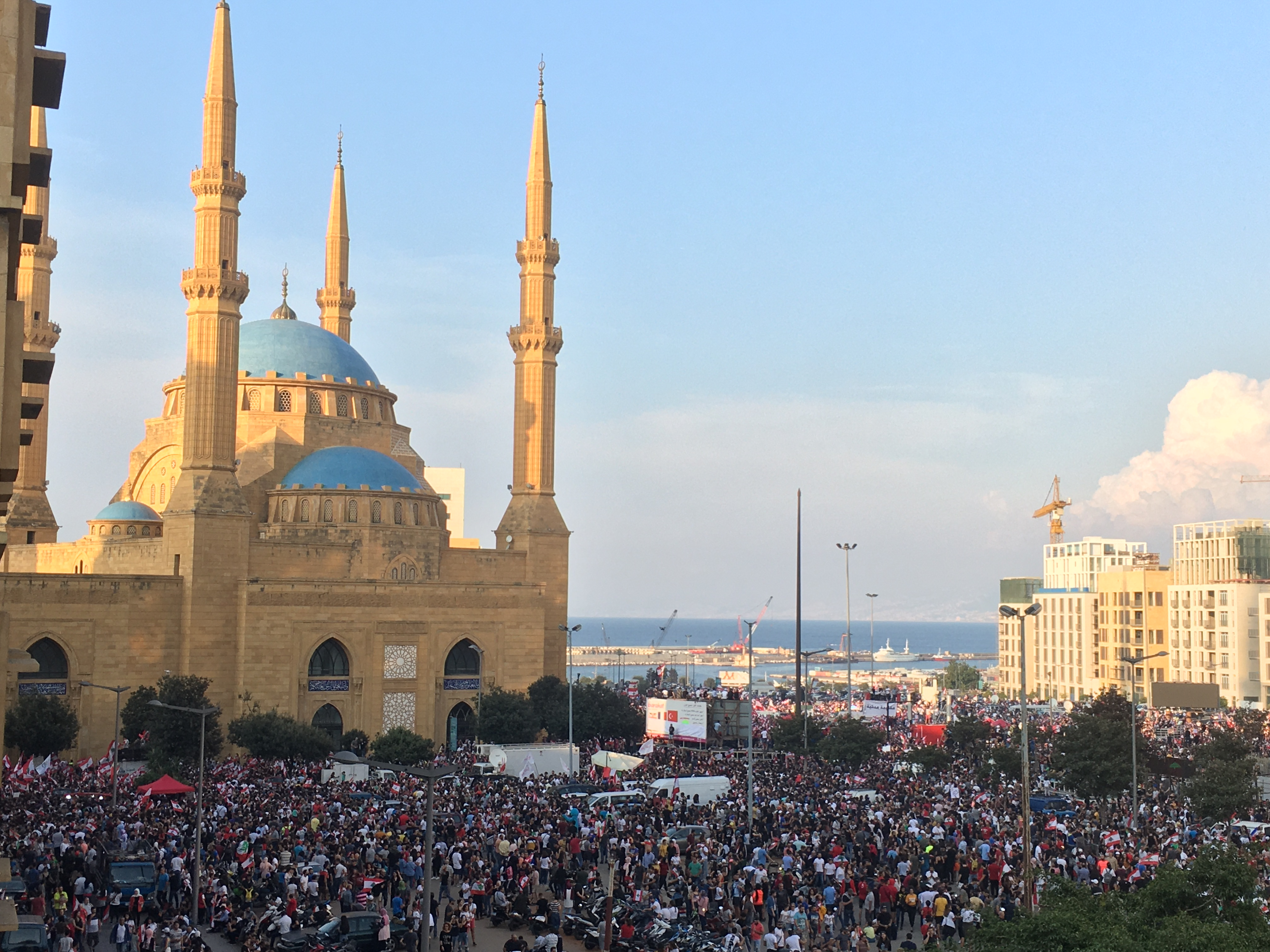 Taken during fourth day of protests